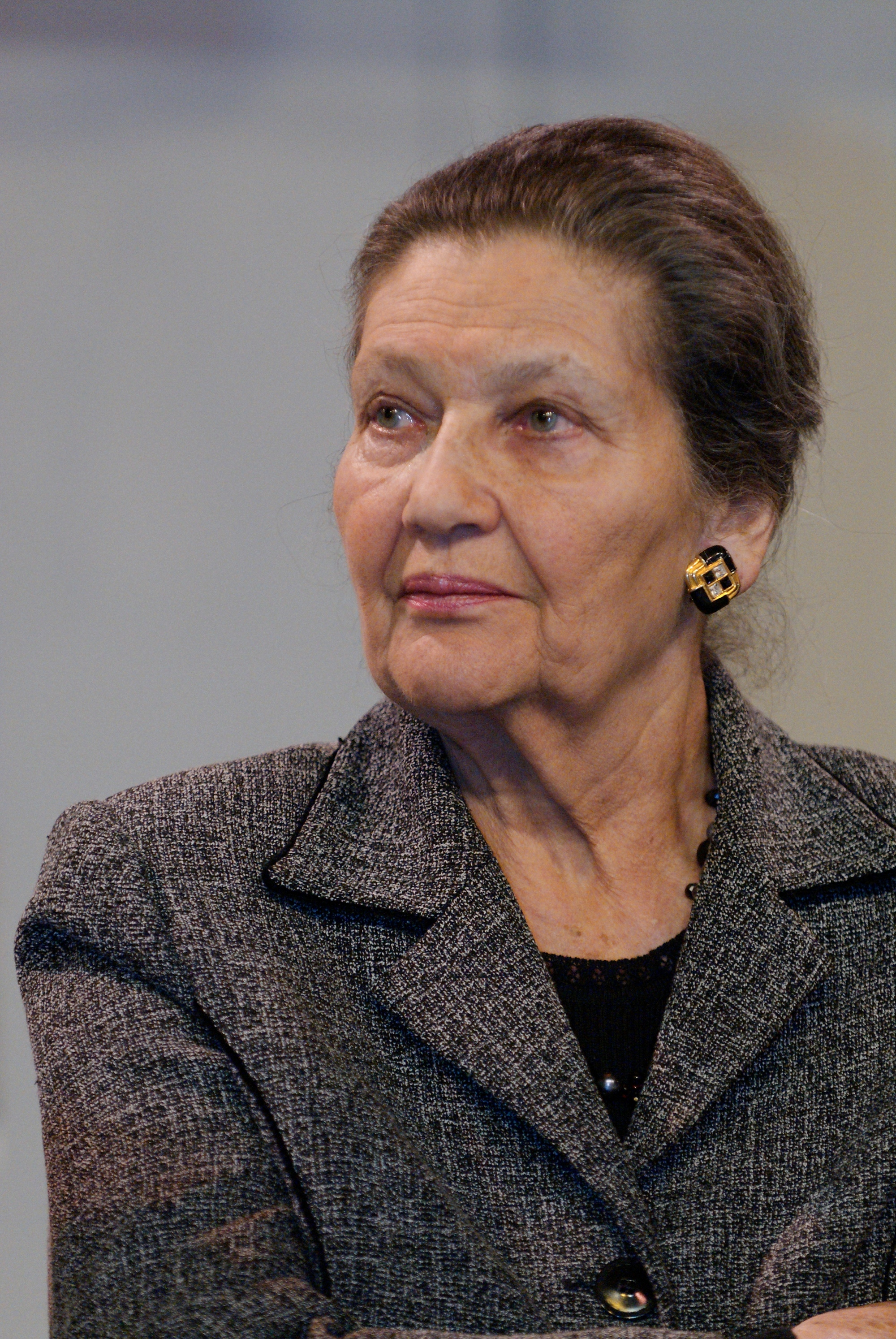 Simone Veil. Political rally organized by the UMP at the Japy Gymnasium on February 27, 2008 on the theme “France and Israel's friendship at the service of peace”, during the campaign for the 2008 town elections.